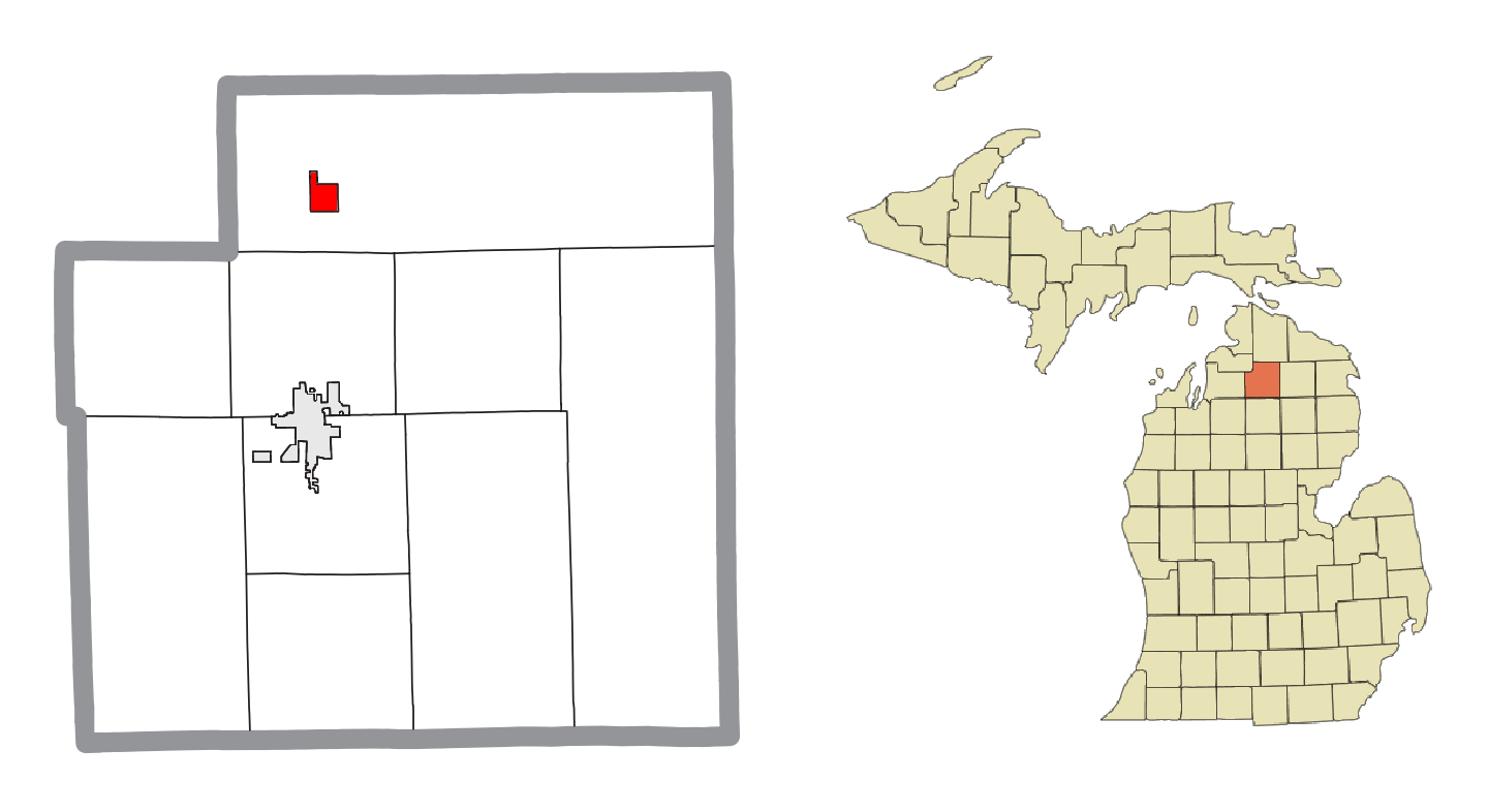 Vanderbilt, MI